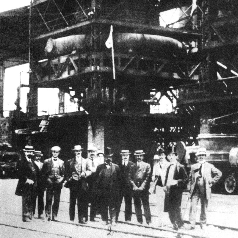 Inaugurazione Ilva Bagnoli